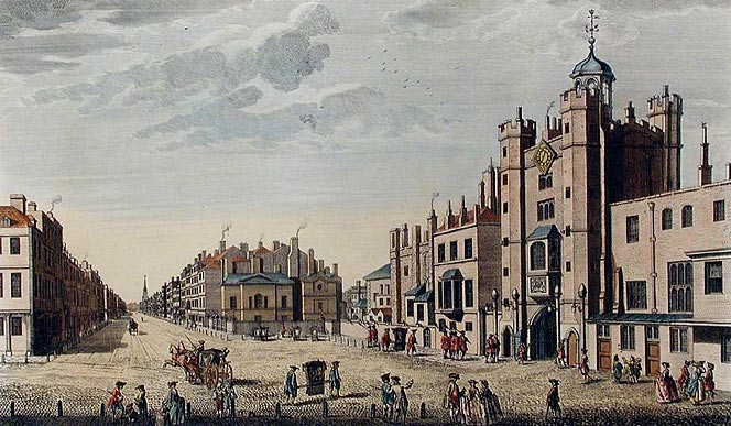 The gateway of St. James's Palace is on the right.